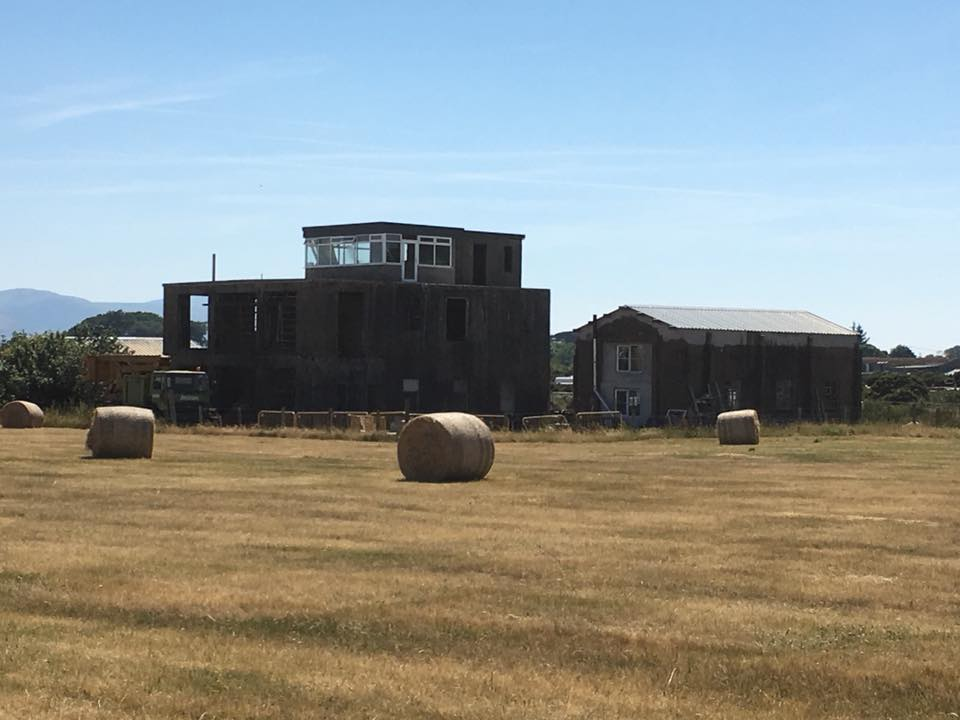 Control Tower RAF Andreas